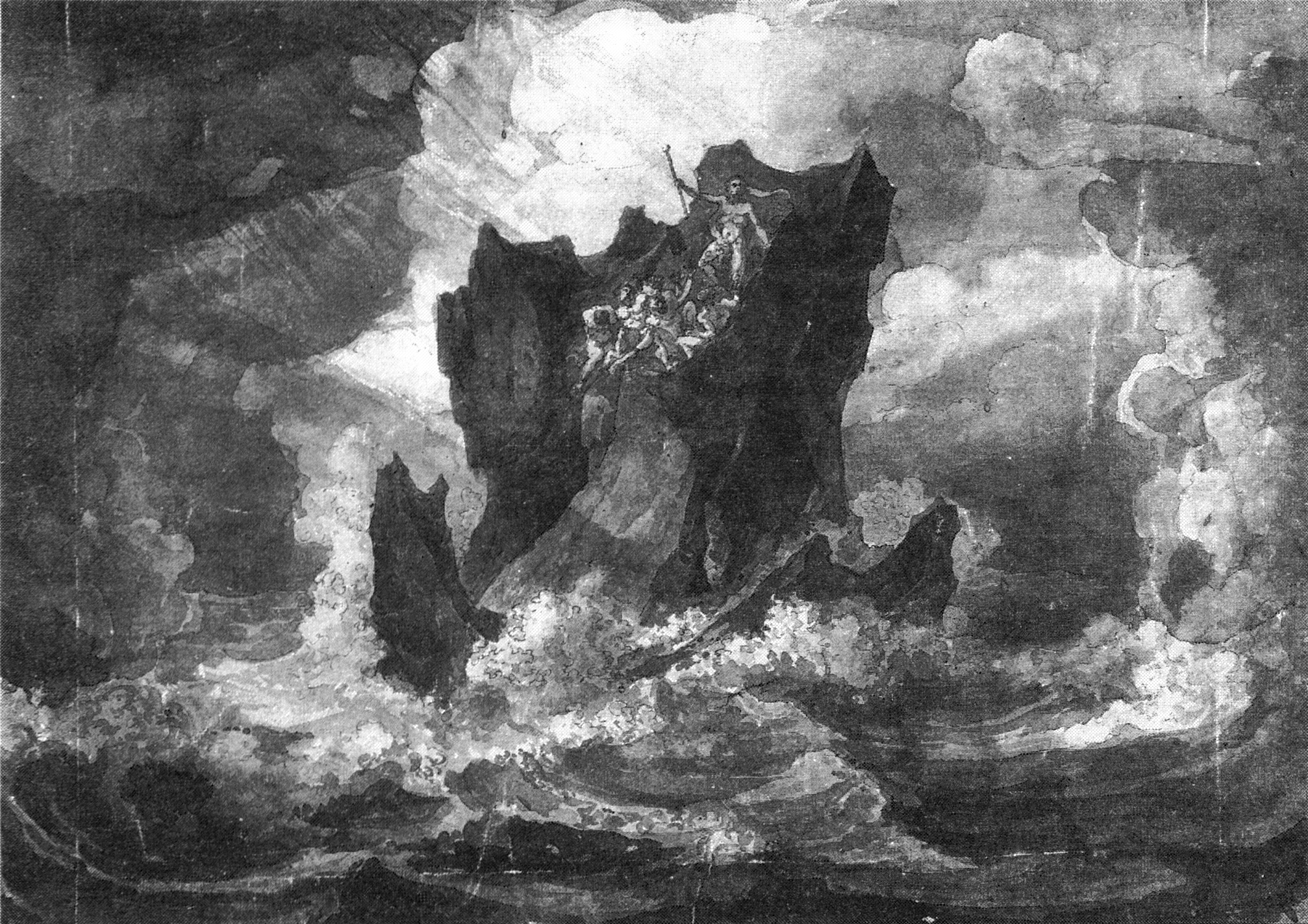 Kraus - Aeneas i Carthago - set design by Louis Jean Desprez - Stockholm 1799